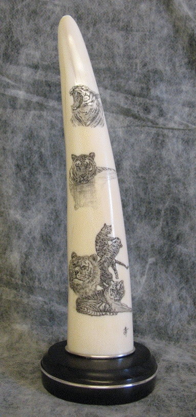 Example of modern scrimshaw by artist Jim Stevens.